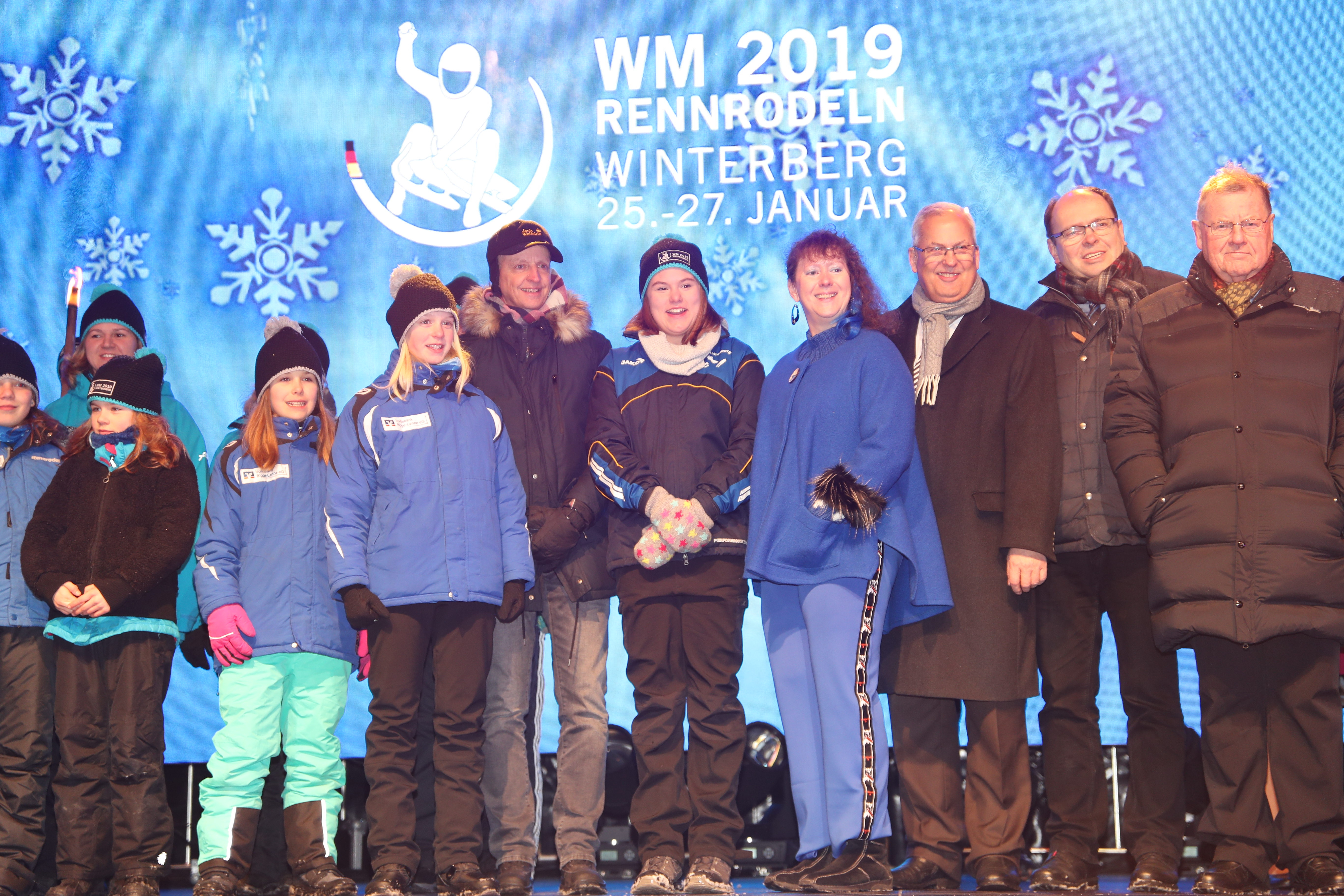 Opening Ceremony at the FIL World Luge Championships 2019 in Winterberg